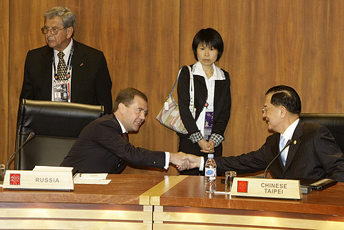 PERU, LIMA. With Chinese Taipei’s (Taiwan) ruling Kuomintang party Honourary Chairman Lien Chan at the meeting of the heads of state and government of the Asia-Pacific Economic Cooperation (APEC).